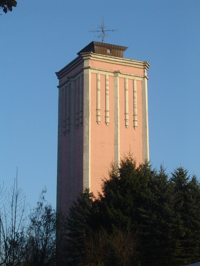 Water Tower "Atadösken" in Wuppertal, Germany self made today by Pitichinaccio 20:14, 23 November 2005 (UTC)